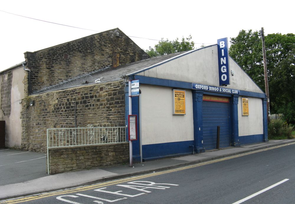 The Oxford Bingo and Social Club - the premises of the former Oxford Cinema